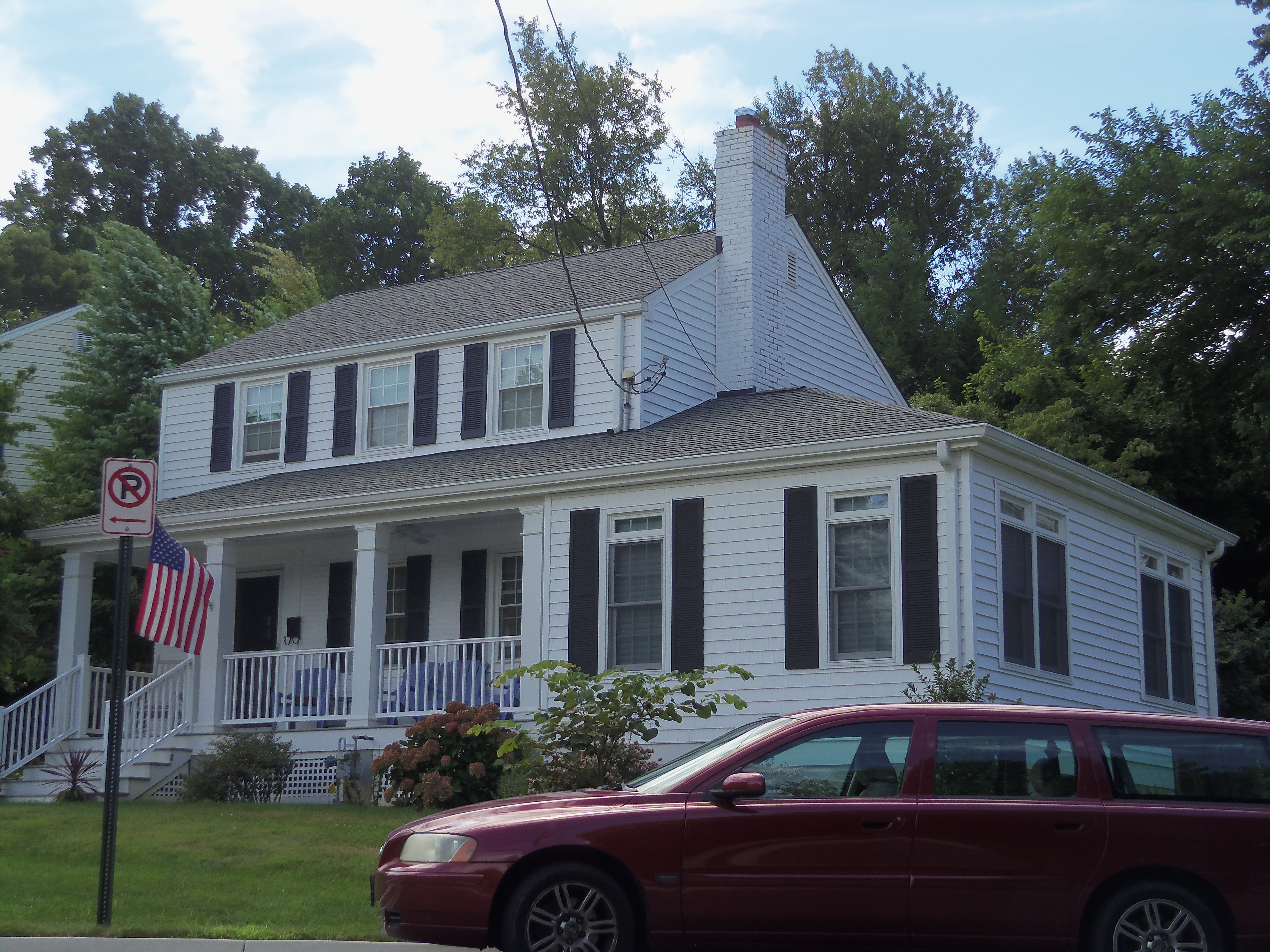 A house in the Dominion Hills Historic District in Arlington County, Virginia. It is listed on the National Register of Historic Places.